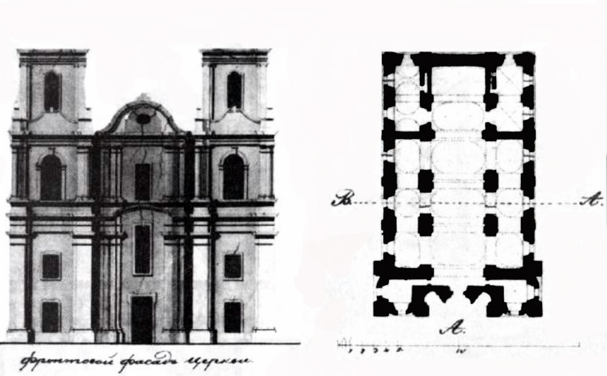 Jesus Society Cathidral in Zhytomyr. Elevation and Ground Plan.